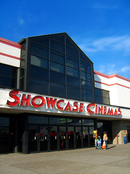 Showcase Cinemas in Mall Arauco Maipú, Santiago de Chile.